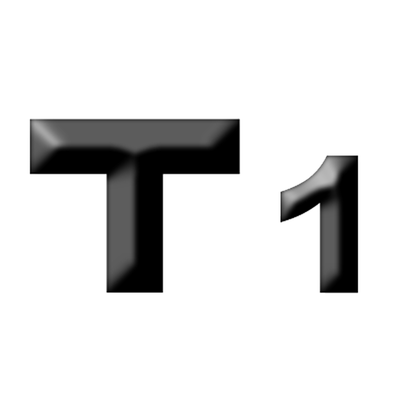 STANDBY SIGNAL NO. 1